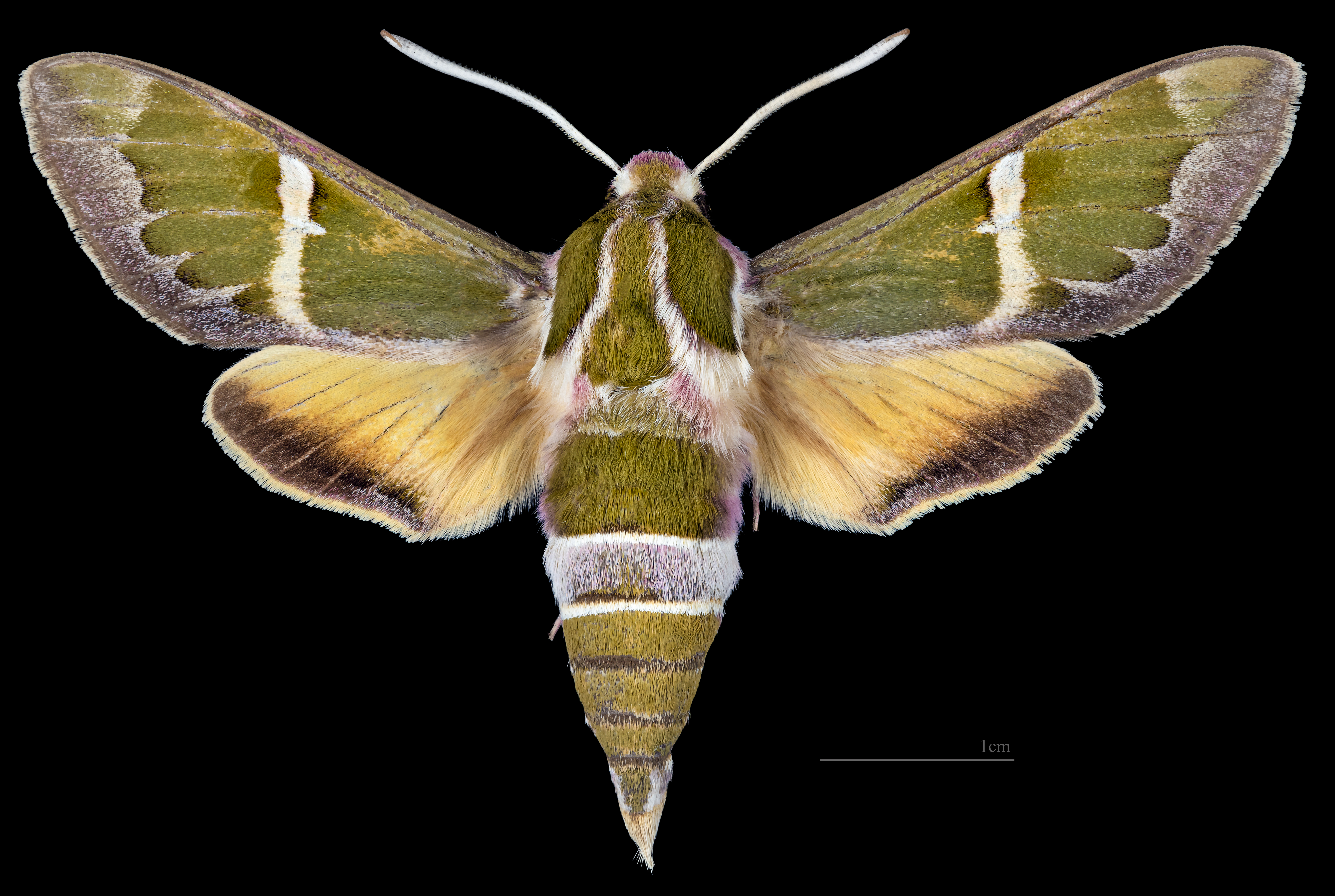 Rethera komarovi - Dorsal side Collection of the Mathematician Laurent Schwartz